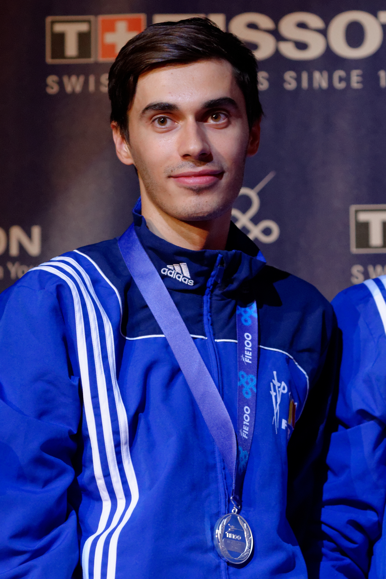 Romania's Ciprian Gălățanu stands on the men's team sabre podium of the 2013 World Fencing Championships 2013 at Syma Hall in Budapest, 10 August 2013.